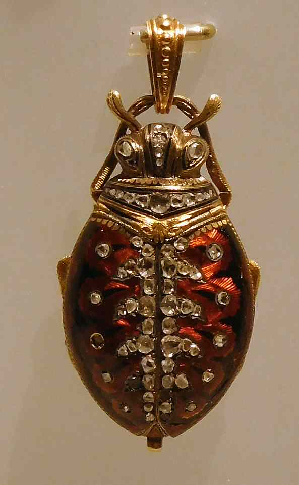 Pendant watch in shape of beetle Switzerland 1850-1900 gold, diamond, enamel. Poldi Pezzoli Museum, Milan